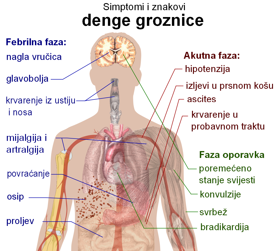 Main symptoms of dengue fever. Croatian translation.